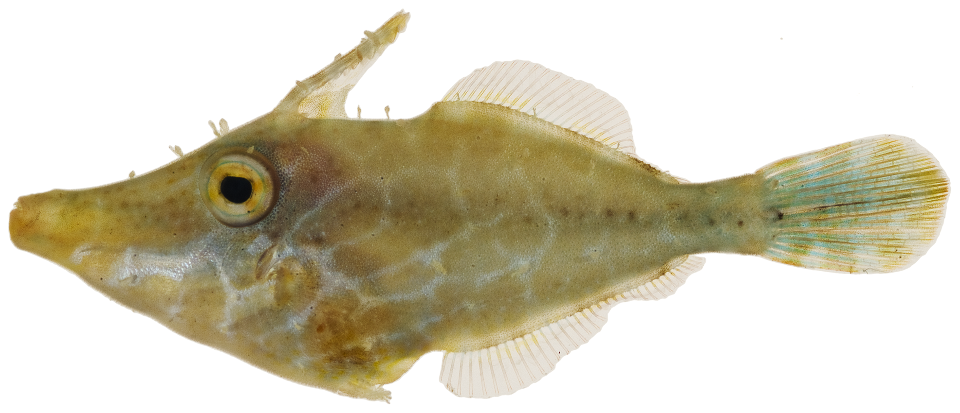 Monacanthus tuckeri Bean, 1906—slender filefish, 32.3 mm SL. Photo by JT Williams.